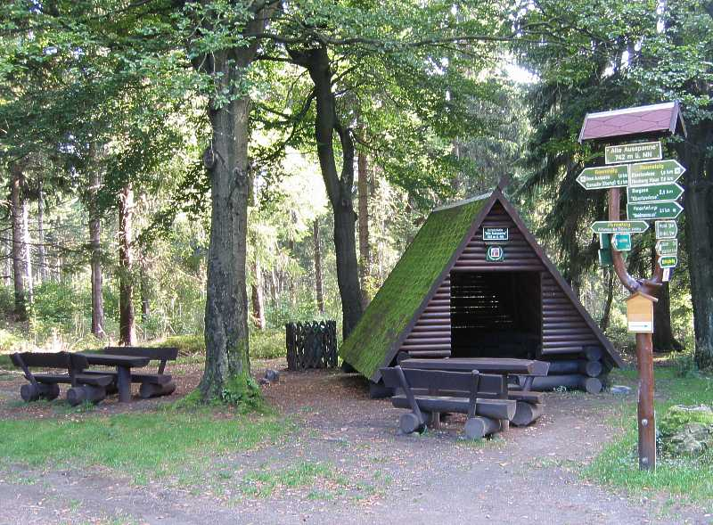 Alte Ausspanne on the Rennsteig trail in Germany near Tambach-Dietharz Licensing Unter gibt es weitere Bilder vom Rennsteig, die zur Verwendung unter ähnlichen Bedingungen freigegeben sind. Weiteres hierzu